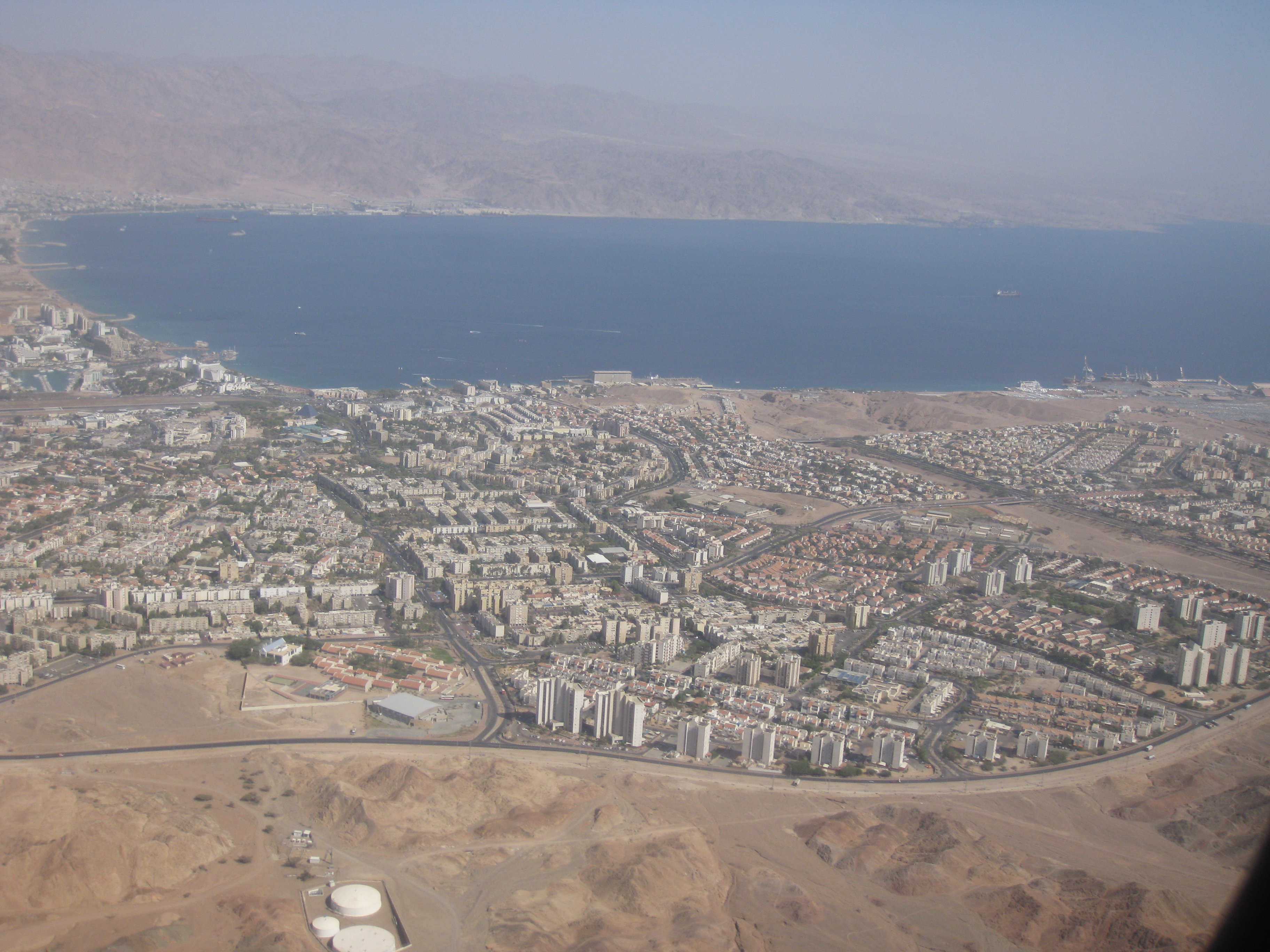 Aerial photographs of Eilat